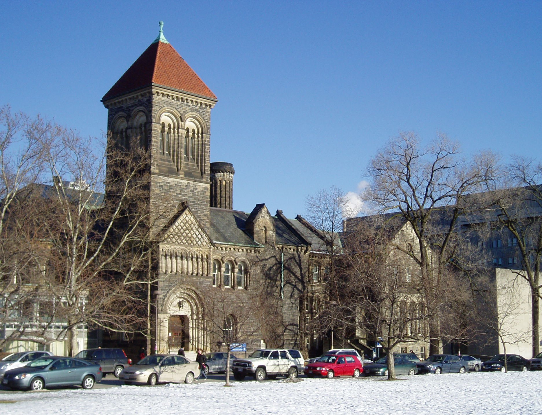 Gerstein Science Information Centre